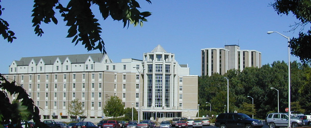 The University of Toledo : Horton International House and Parks Tower. Facing north-east. Date: 8/15/2002